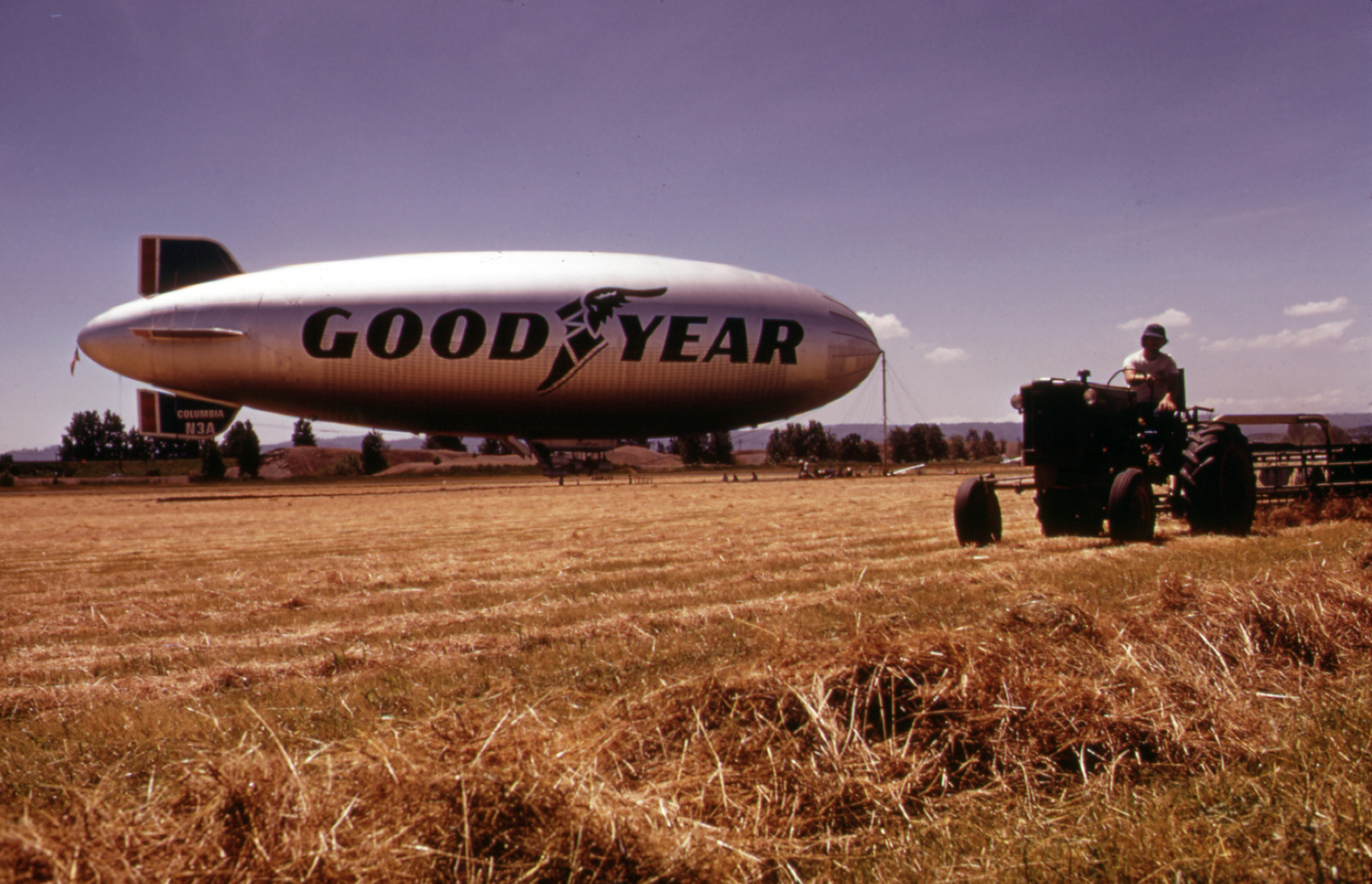 The Goodyear GZ-20 blimp "Columbia N3A" at Pearson Airpark, Vancouver Washington.